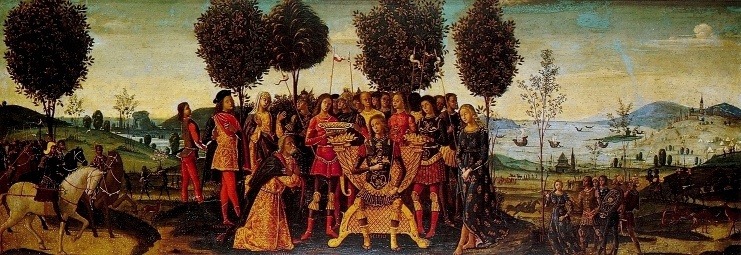 Magnanimity of Scipio Africanuslabel QS:Len,"Magnanimity of Scipio Africanus" label QS:Lfr,"la Clémence de Scipion" label QS:Lit,"Continenza di Scipione"